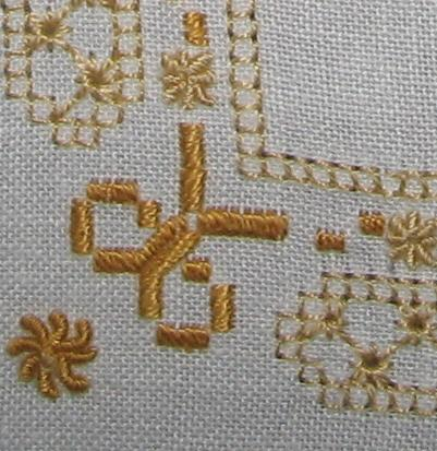 Embroidery